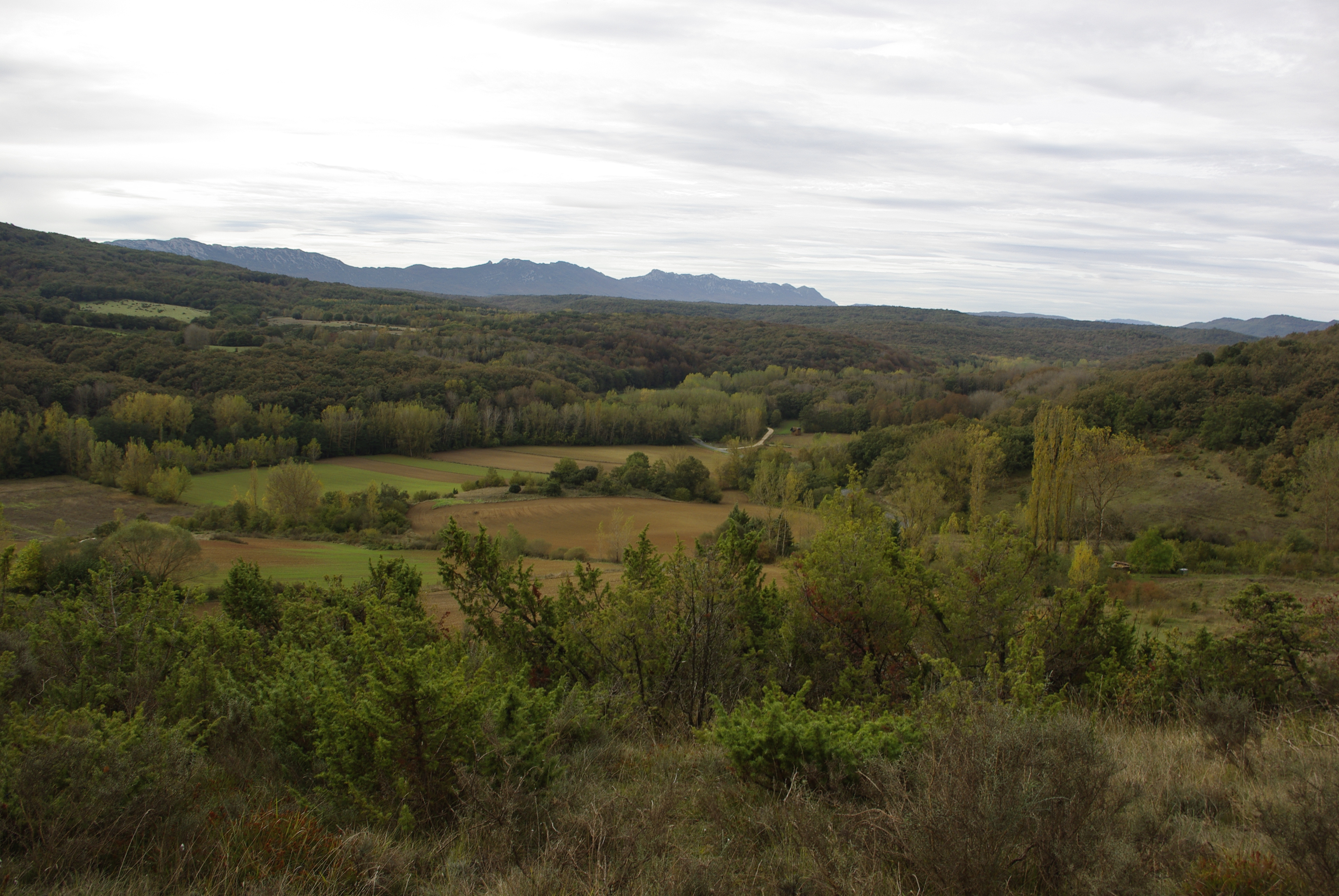 This is a photography of a Special Area of Conservation in Spain with the ID: ES2110019. Natura2000 entry, EEA entry